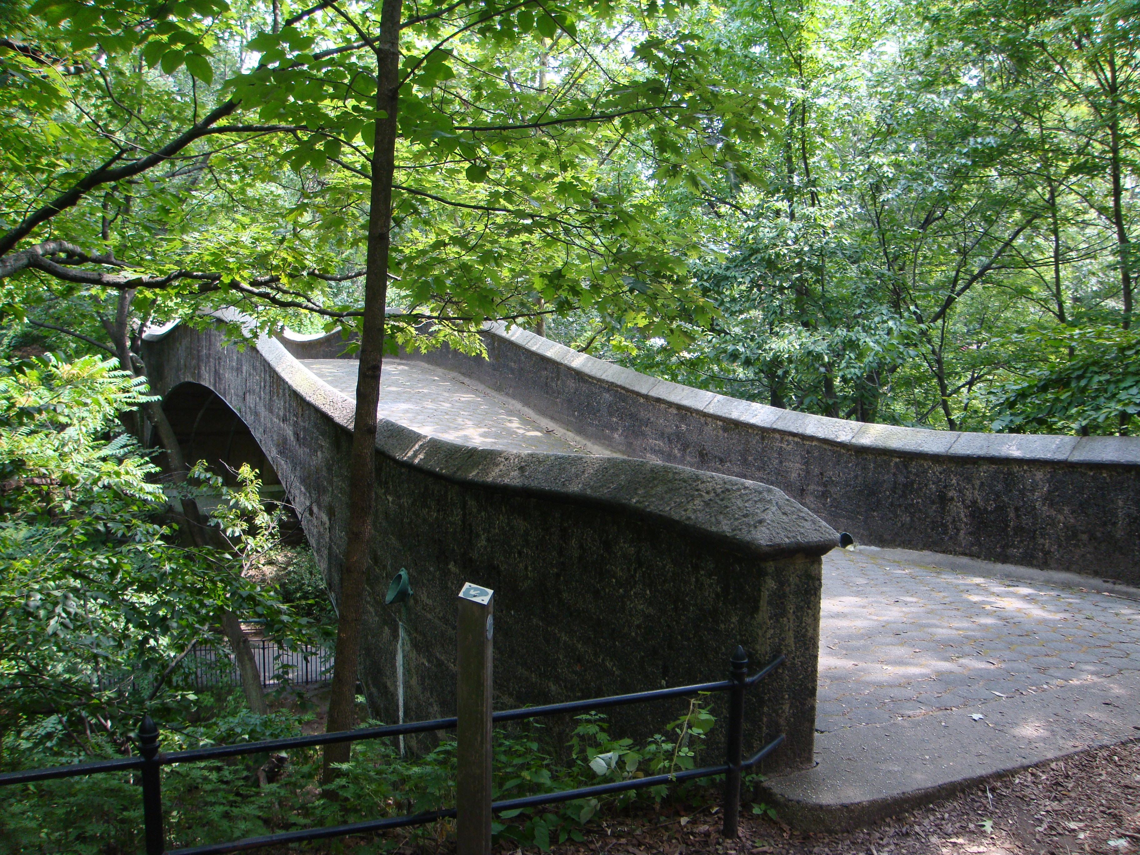 Bridge